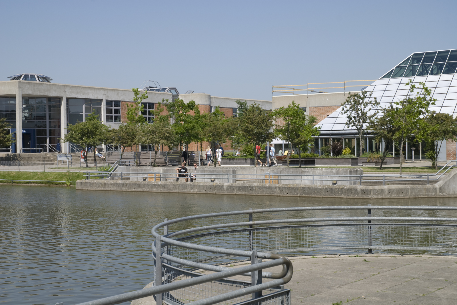 Aalborg University - summer by the lake.